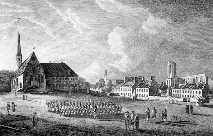 Print, View of the Cathedral, Jesuits College, and Recollect Friars Church, Quebec City, 1761, Richard Short, 32.3 x 50.5 cm